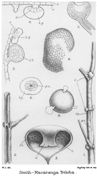 Sketches of parts of a macaranga triloba plant